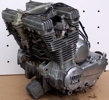 Yamaha XJ900F Engine